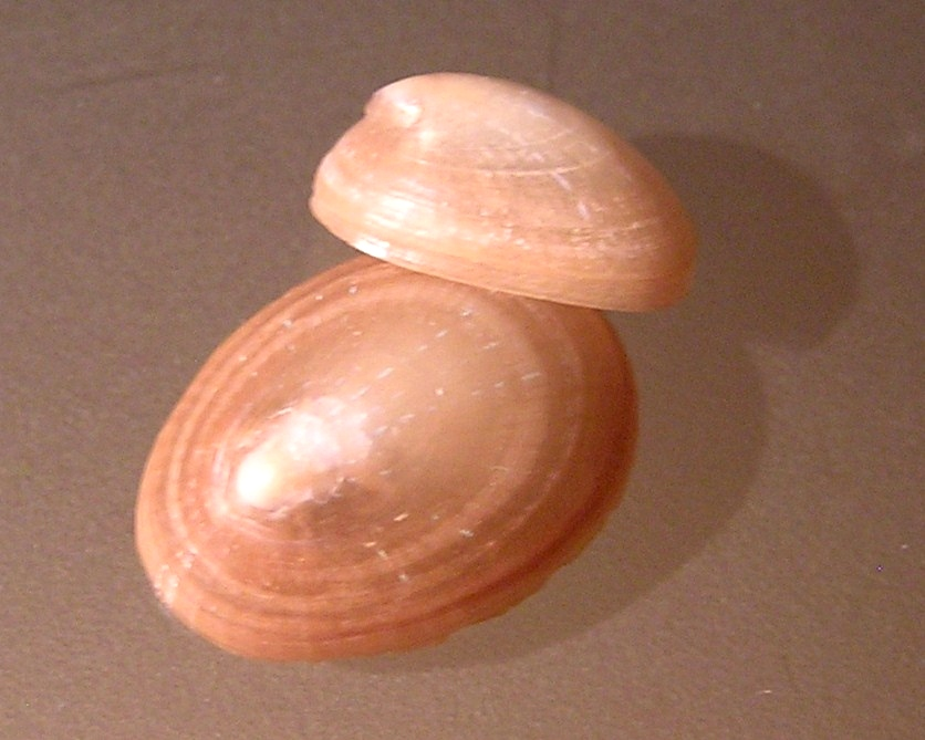 Ansates pellucida (Linnaeus, 1758) ; a limpet from the family Patellidae; South Africa